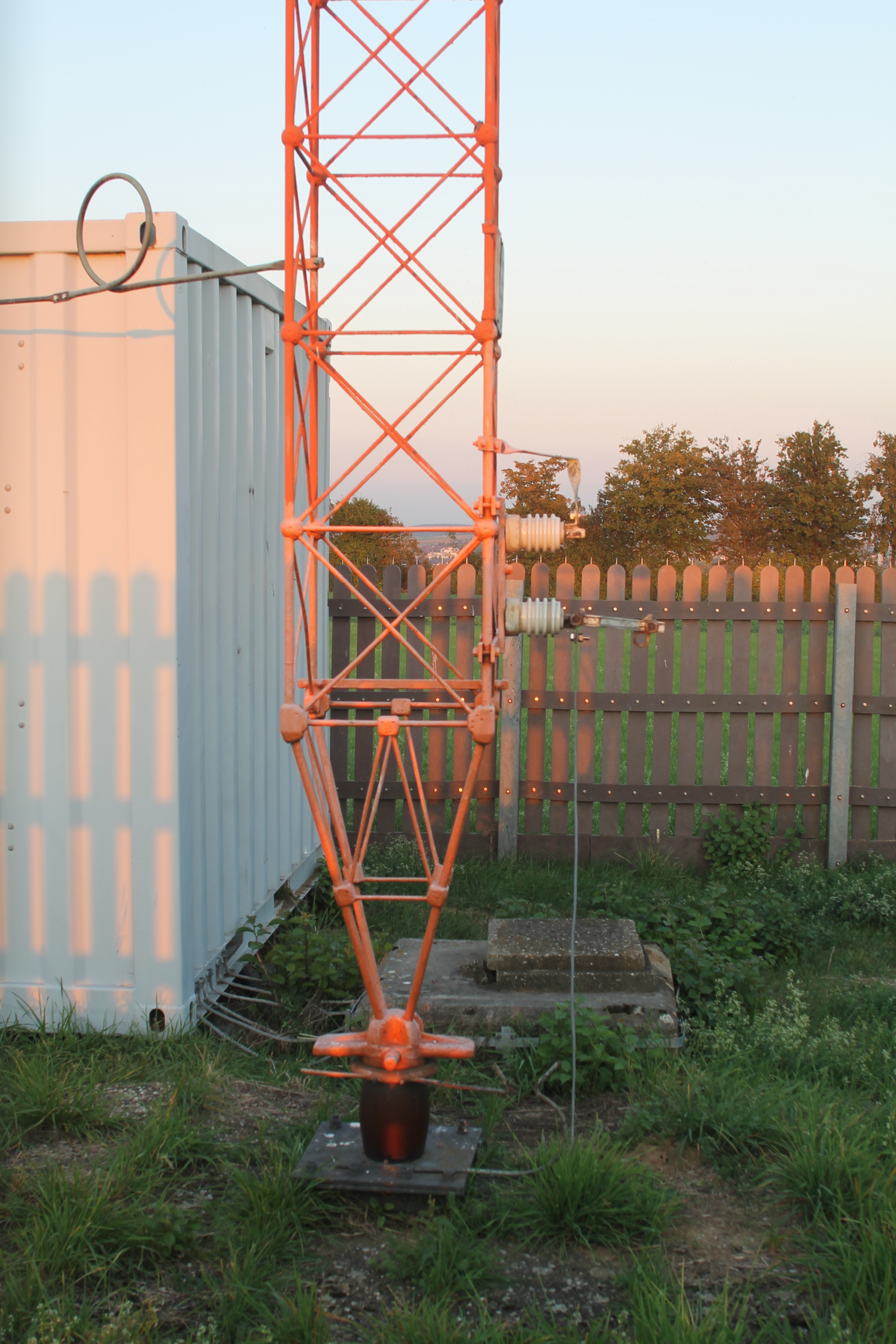 Base of Hirschlanden Radio Mast